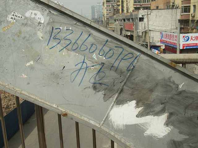 An advertisement about identity document forgery in public place